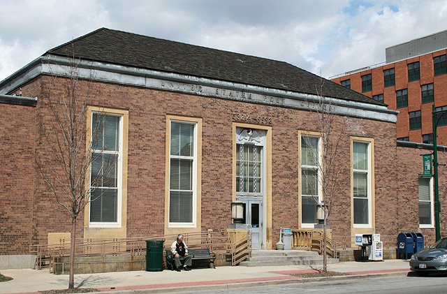 The West Allis Post Office, West Allis. On the National Register of Historic Places. Taken and uploaded on April 22, 2009.